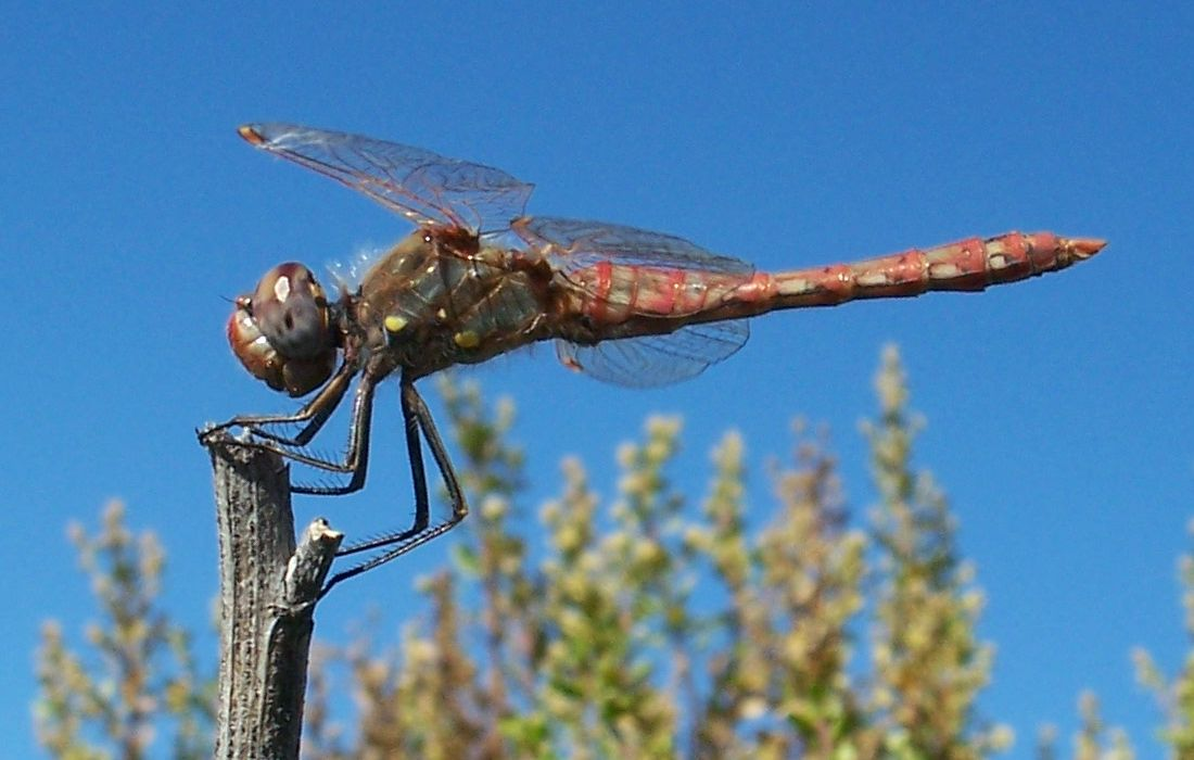 Variegated Meadowhawk. Male